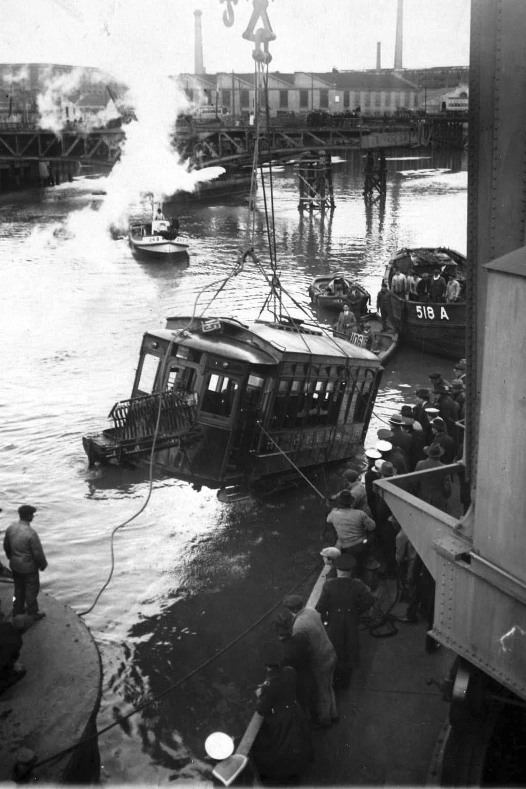 The tramway that had sunk in the Riachuelo while being removed from water by a group of workers. The vehicle had departured from Lanús and had 63 people inside at the moment of the accident, that happened when the driver (Italian immigrant Juan Vesco) attempted to cross the Bosch bridge without realising that the spans were opened to allow the passage of a boat, due to the thick fog. As a result, the tram fell into the river: 56 people died and only 7 survived the tragedy.